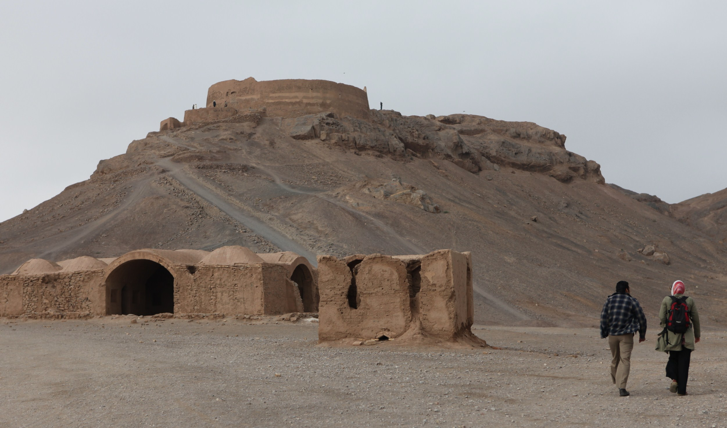 Zoroastrian tower of Silence in Yazd, Iran